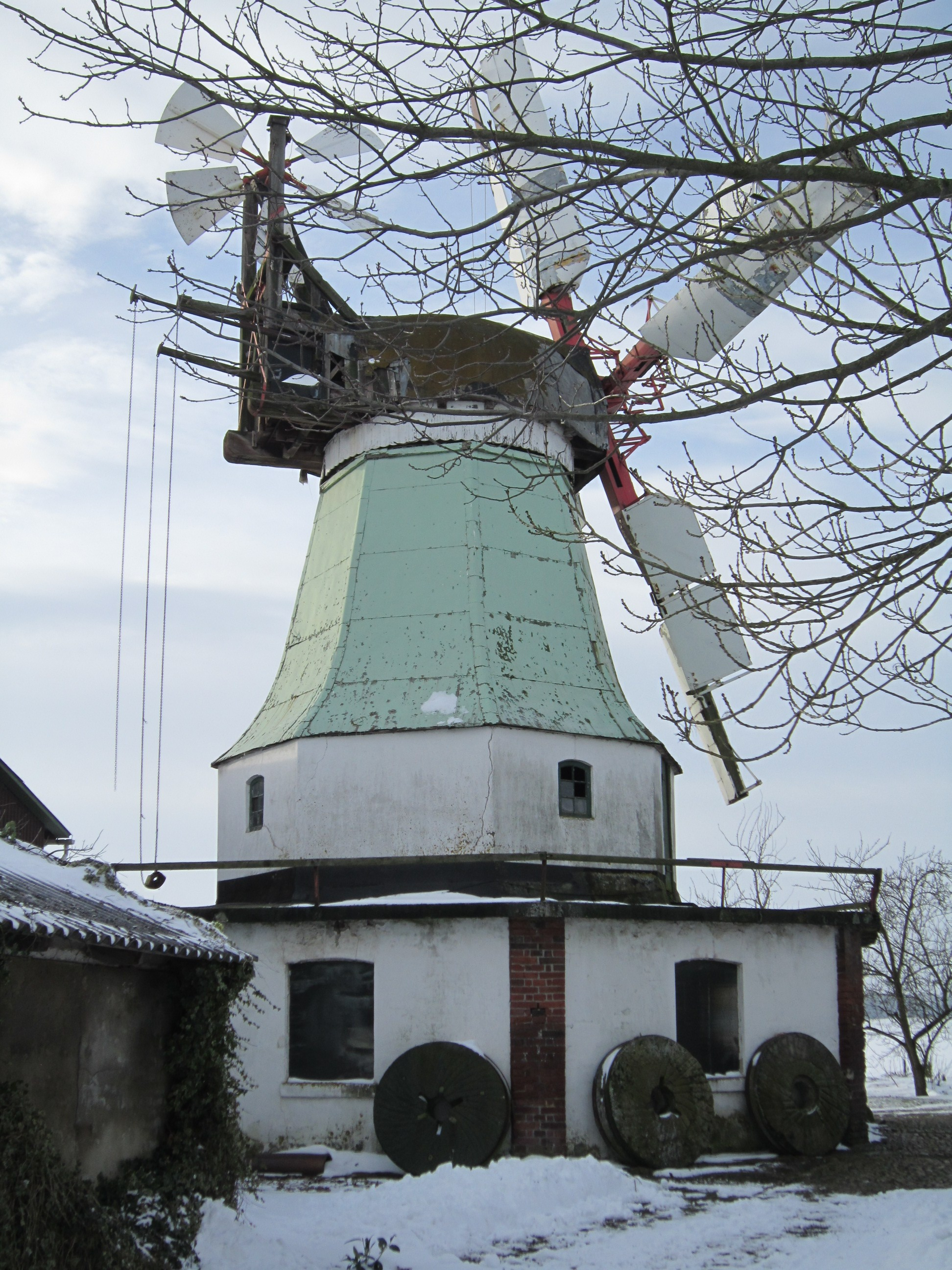 Windmill "Margarethe" in Huckstedt (Landkreis Diepholz, Lower Saxony)